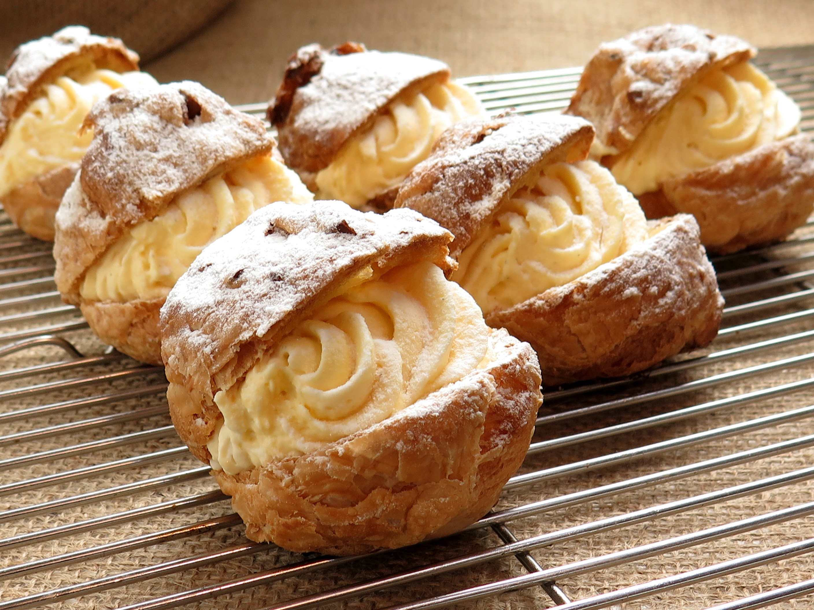 Cream puffs